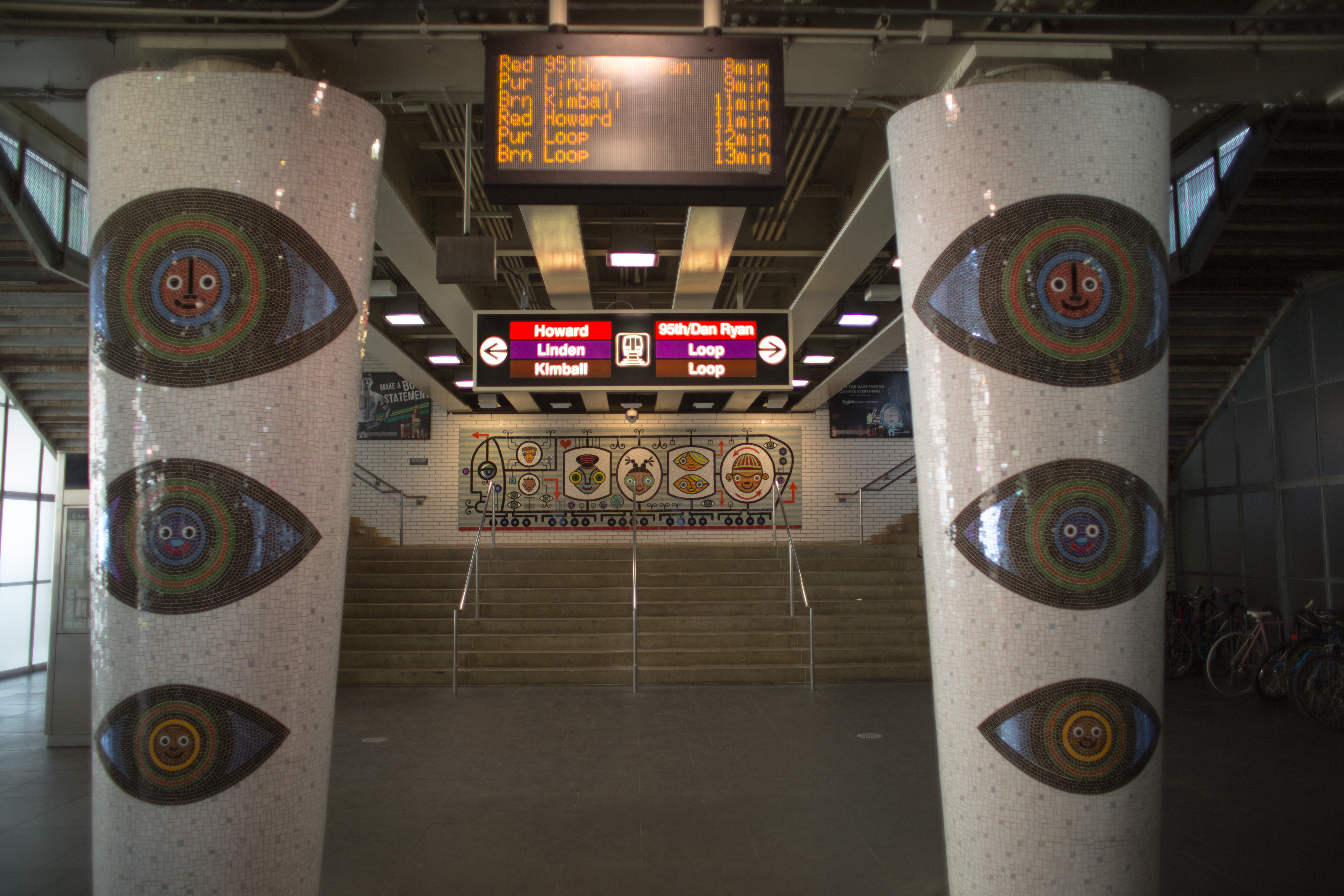 Belmont El Station, Chicago 2015-121